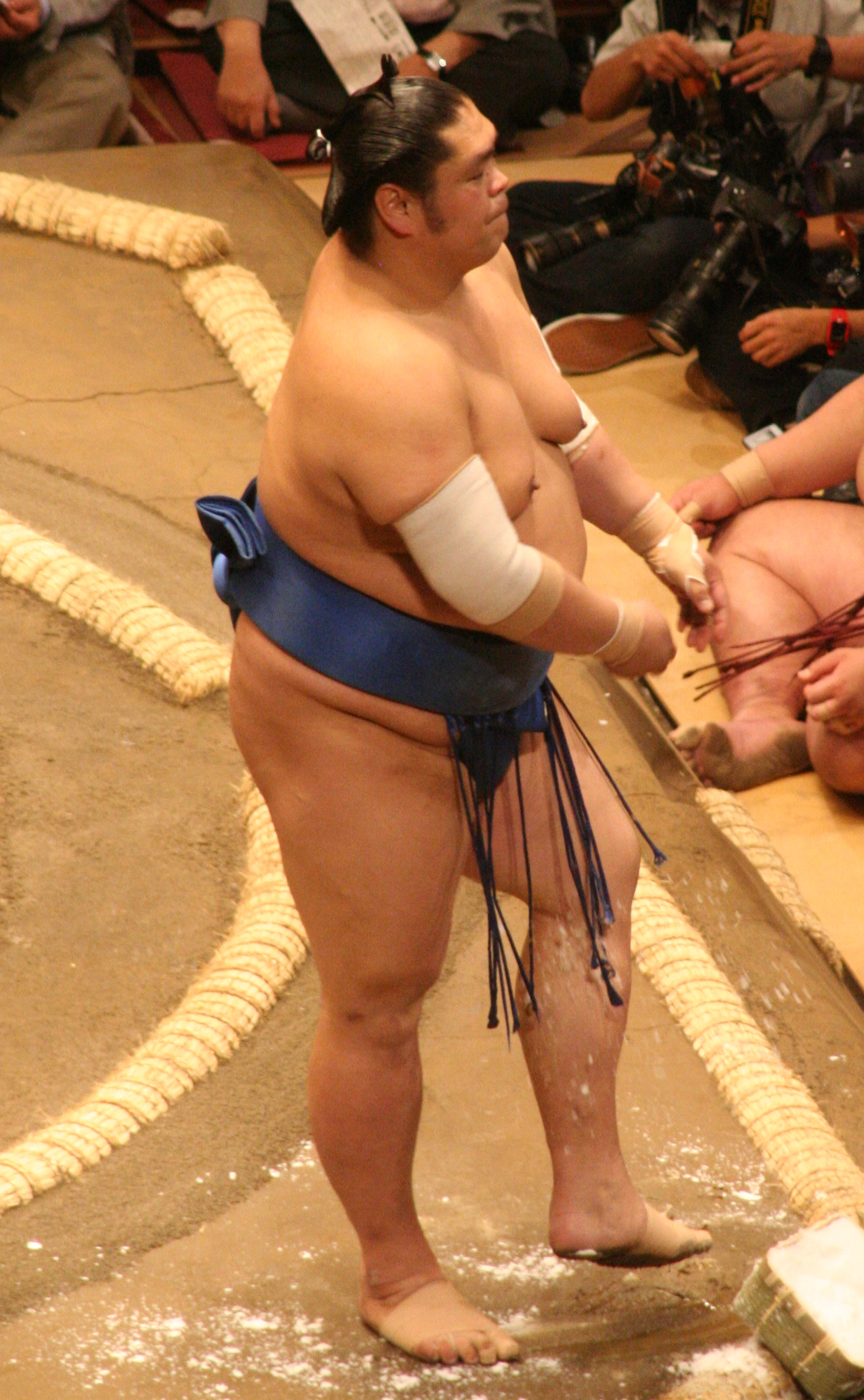 First day of 2009 May Sumo Tournament in Tokyo, Japan - Tochinonada